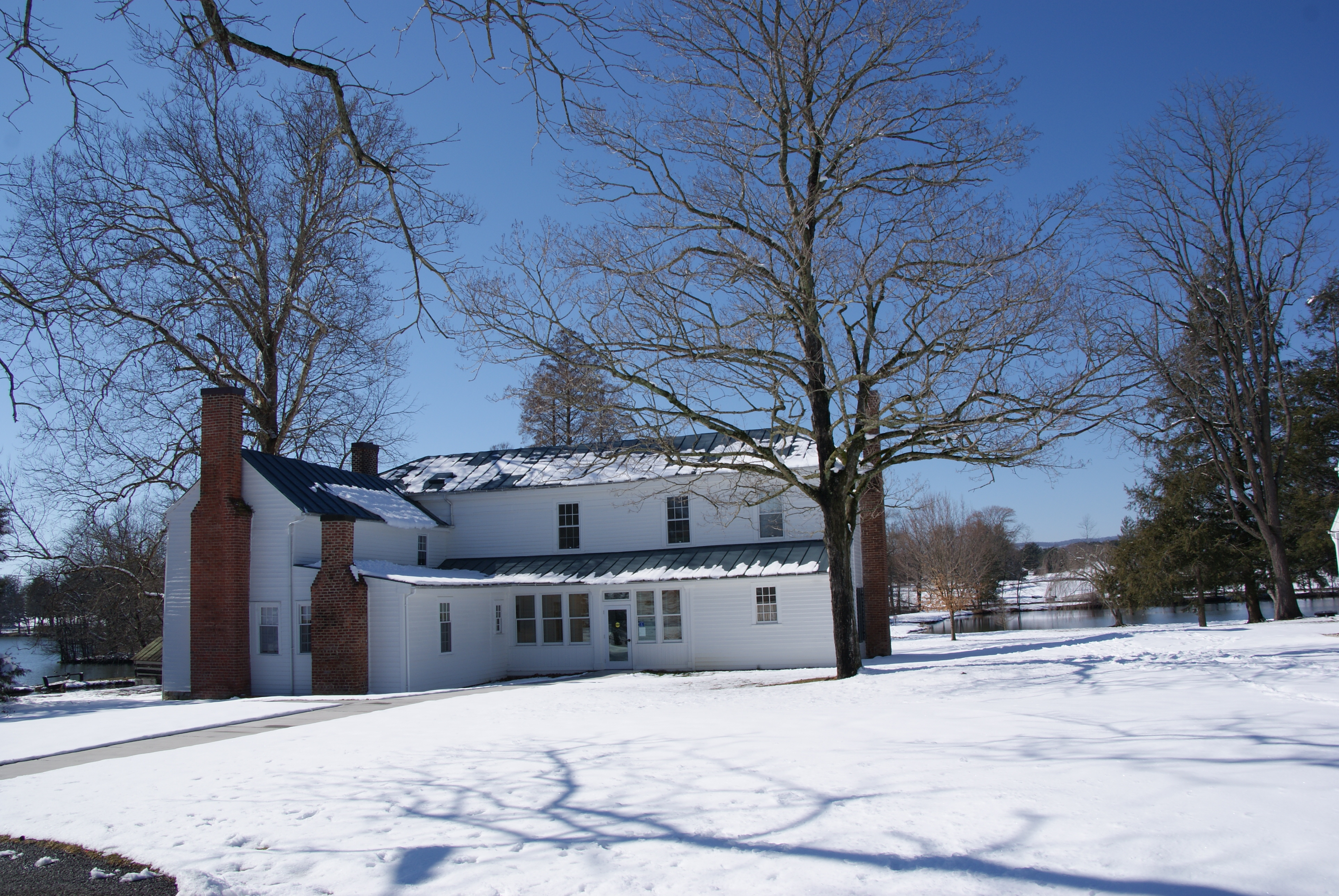 Solitude